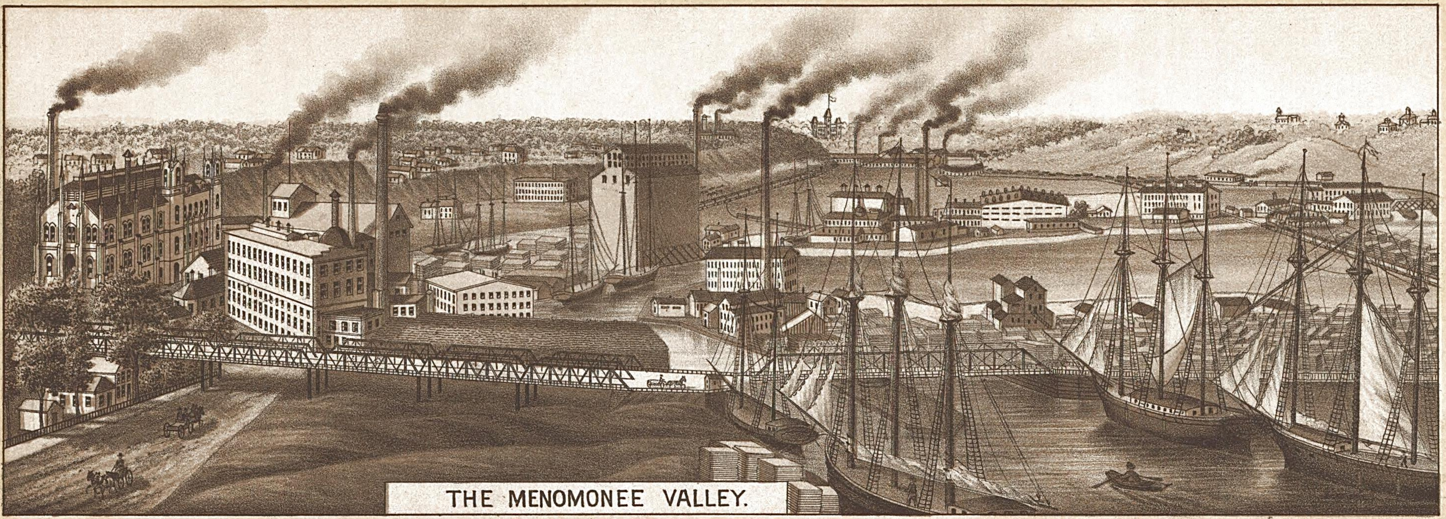 1882 drawing of the Menomonee Valley in Milwaukee. Derived from public domain image uploaded at